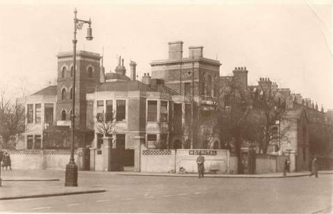 Old Postcard of Battersea General Hospital